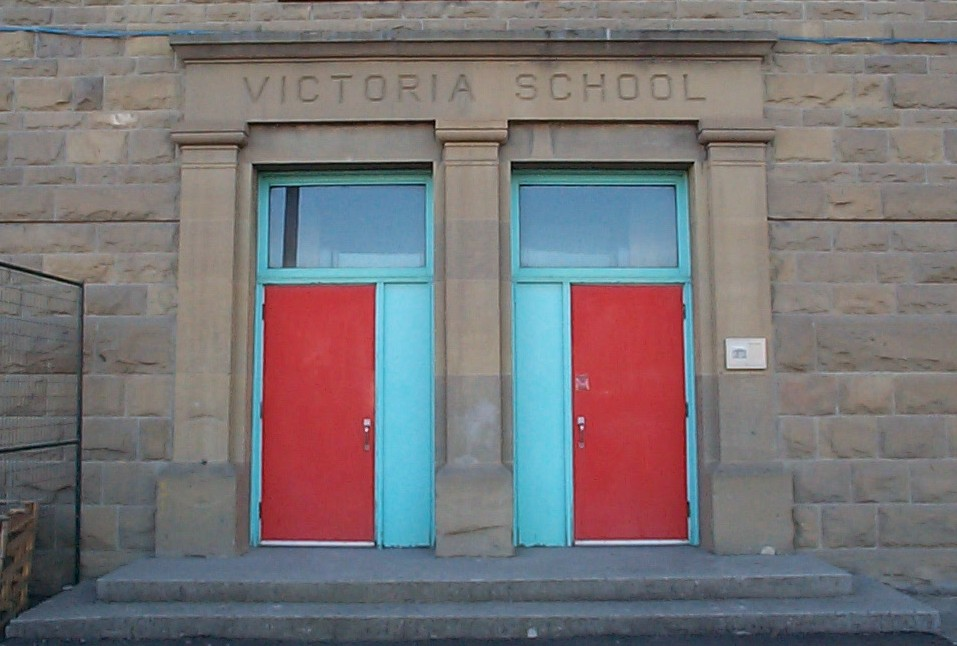 Subject: Victoria School Location: 411 - 11 Avenue S.E., Calgary, Alberta Description: Entrance to Victoria School was first built in 1903-1904 in what is now the Beltline area. The original building was demolished, but the building shown in the picture was a 1912 addition that was retained. The sandstone exterior is typical of buildings of the era. Photographer: User:Thivierr Date taken: November 25, 2005 Copyright release: The original copyright holder (phtographer and uploader) releases the image to the public domain without any reservations.